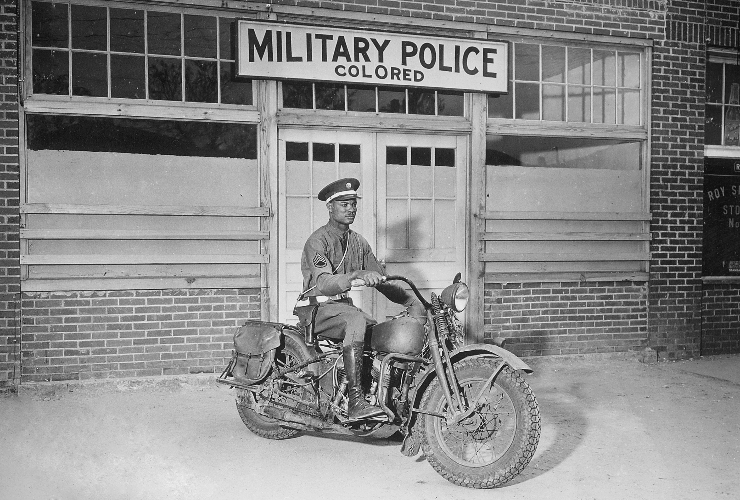 Description from NARA :"An MP on motorcycle stands ready to answer all calls around his area. Columbus, Georgia." April 13, 1942. Pfc. Victor Tampone. 111-SC-134951. Image shows an African-American Staff Sergeant seated proudly on a motorcycle, armed with a sidearm, in front of a building with a sign that reads "Military Police – Colored".